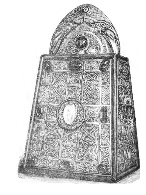 Saint Patrick's [bell] shrine. An inscription on the read reads ("Pray for Domnall Ua Lochlainn, by whom [i.e. on whose orders] this bell was made..."